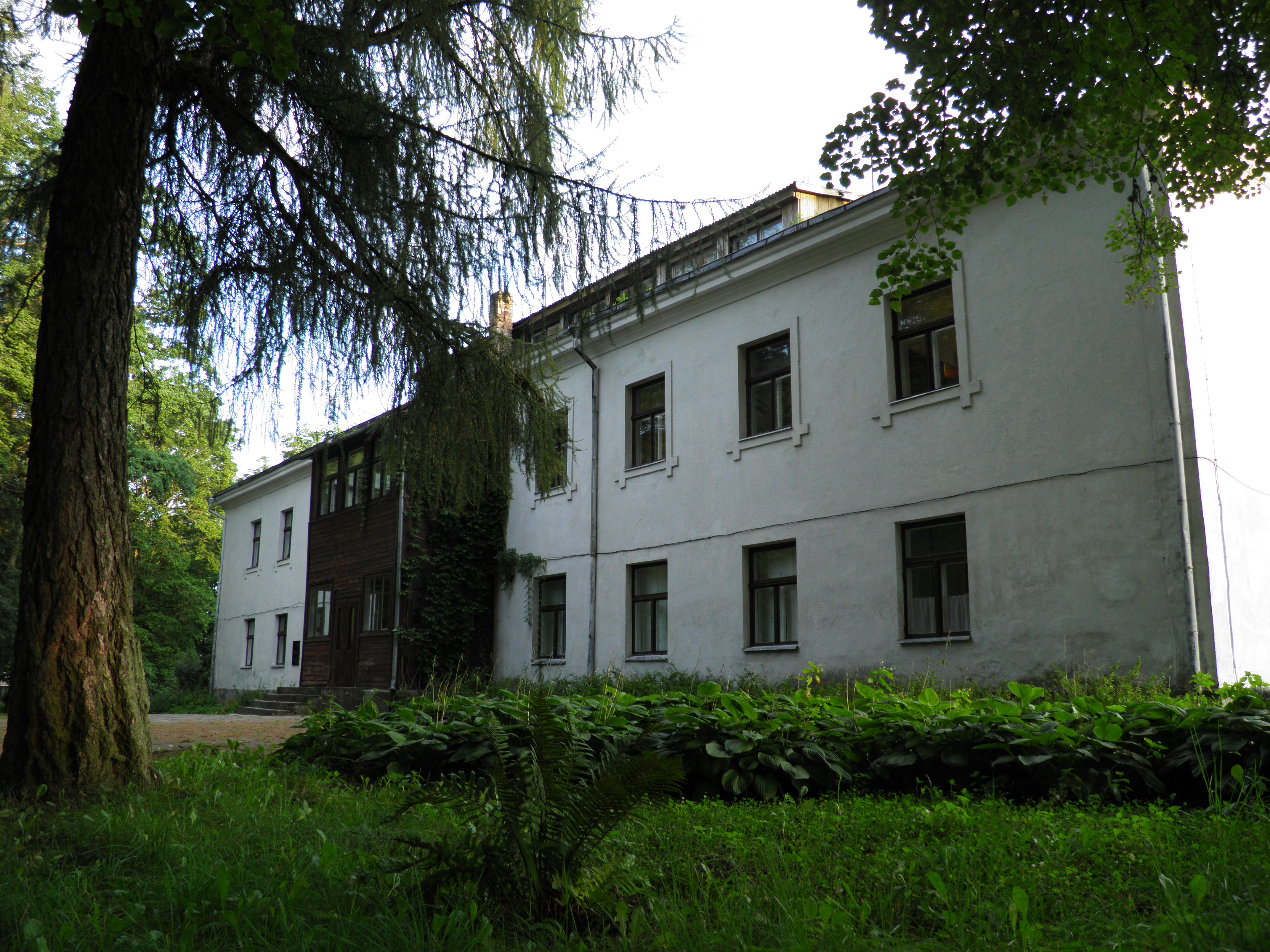 Lielzalves manor